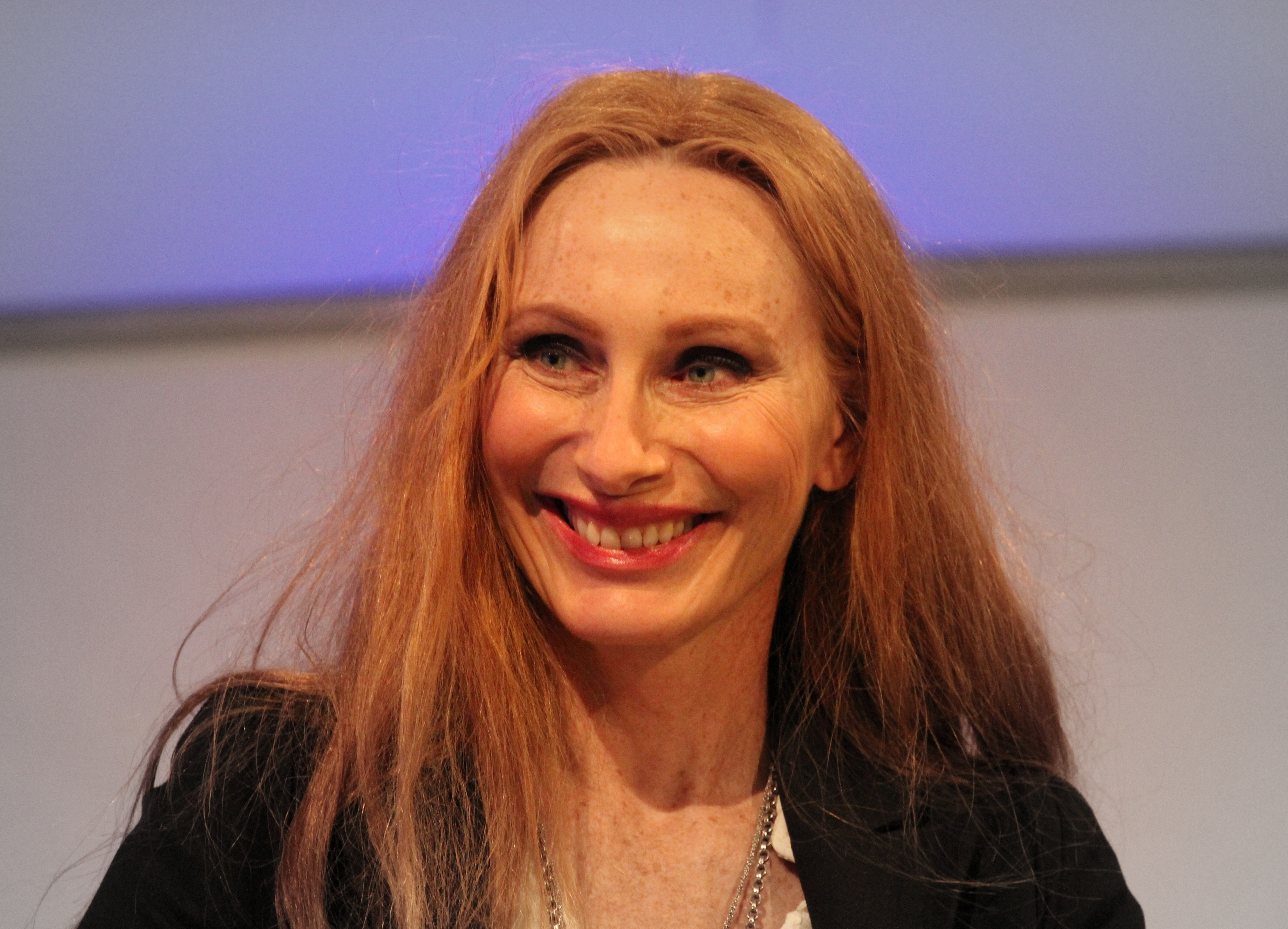 Andrea Sawatzki at Frankfurt Book Fair 2015